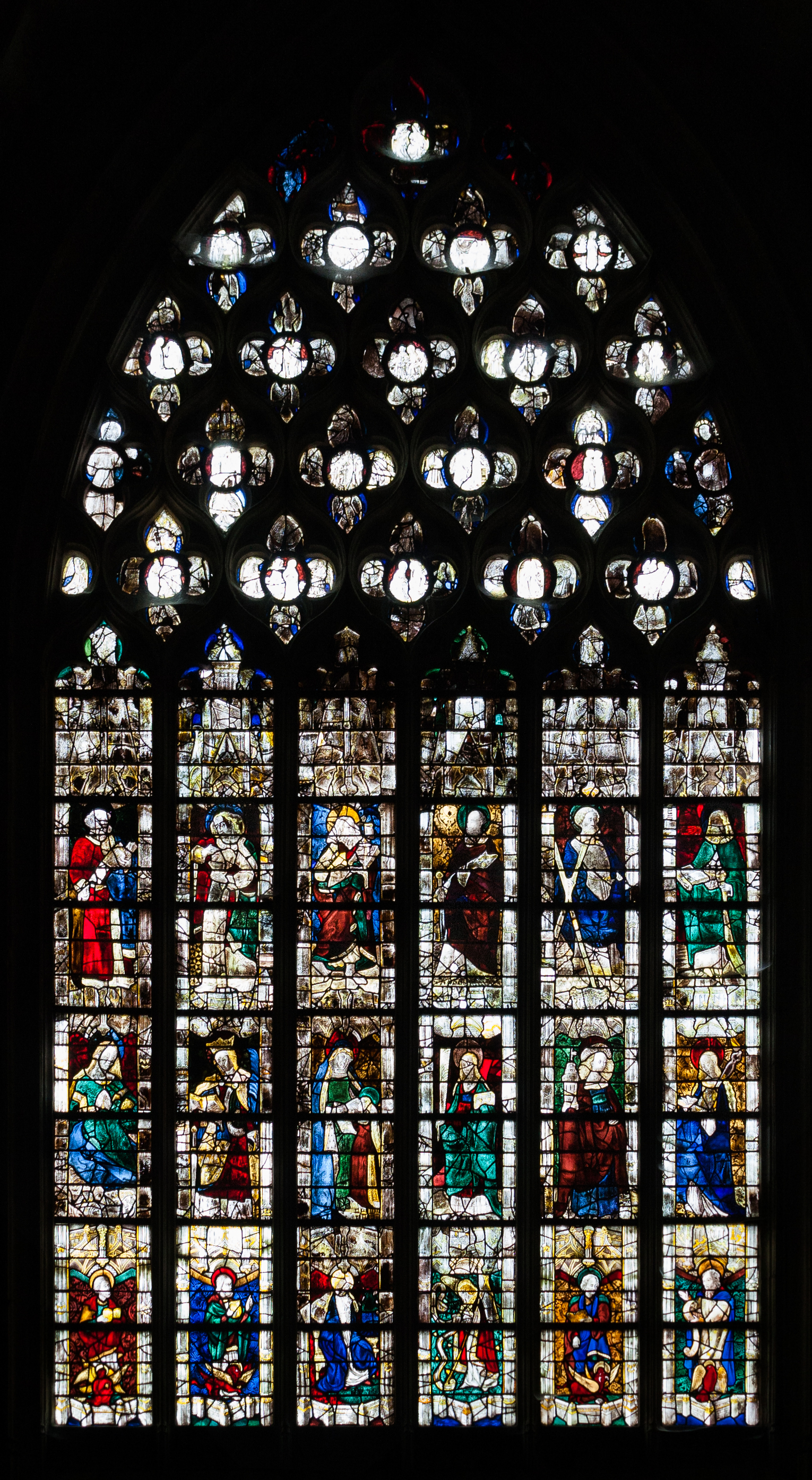 Medieval stained glass created c. 1445 in the 18th bay (south transept) with six lancet lights, each of them with three panels in the main section. From top to bottom, panels from left to right in each row: Upper row: Saint Peter, John the Evangelist, John the Baptist, Saint Paul, Saint Andrew, and James the Less Middle row: Saint Margaret, Catherine of Alexandria, education of the Virgin, Saint Lucy, Saint Barbara, and Saint Apollonia Lower row: Saint Matthew, Saint Mark, Annunciation (two panels), Saint Luke, Saint John The window was restored in 1915 and 1931 by Charles Daumont-Tournel. The lower panels depicting the four evangelists were added by Michel Durand in 1986. See also p. 123 in Martine Callias Bey and Véronique David: Les vitraux de Basse-Normandie, ISBN 2-84706-240-8. Please note that the panels created by Michel Durand are still covered by copyright and may not be cropped but just included as its presence in the picture is unavoidable, see COM:DM France - Freedom of Panorama "de minimis" exception.